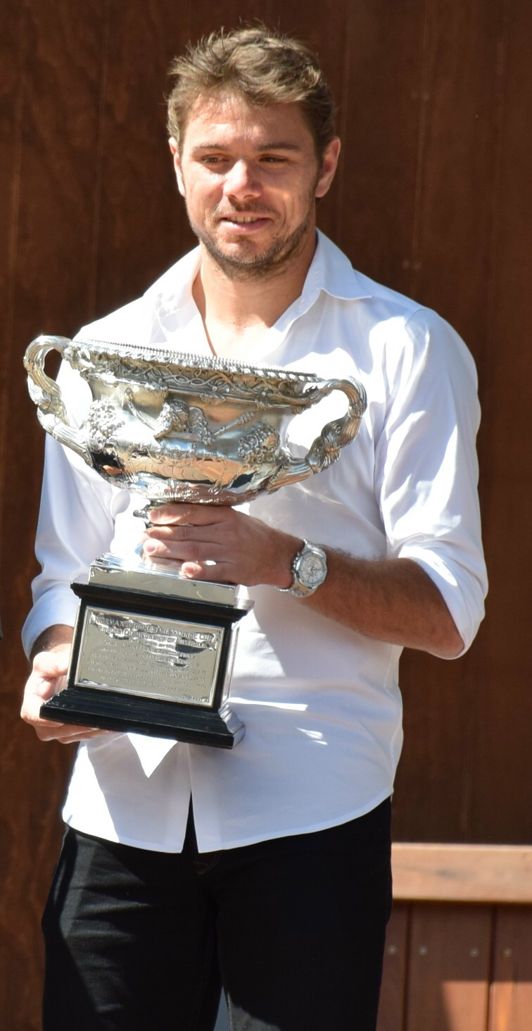 Reigning 2014 champion Stan Wawrinka holds Norman Brookes Challenge Cup at the Australian Open 2015